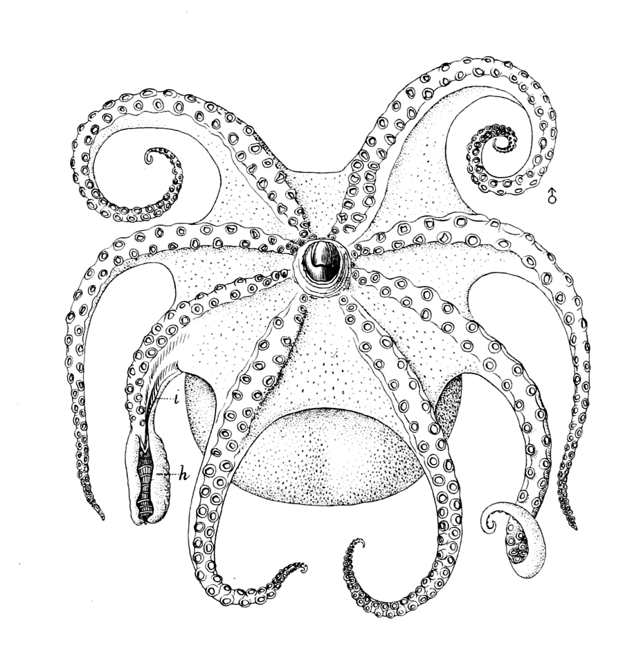 Bathypolypus arcticus male